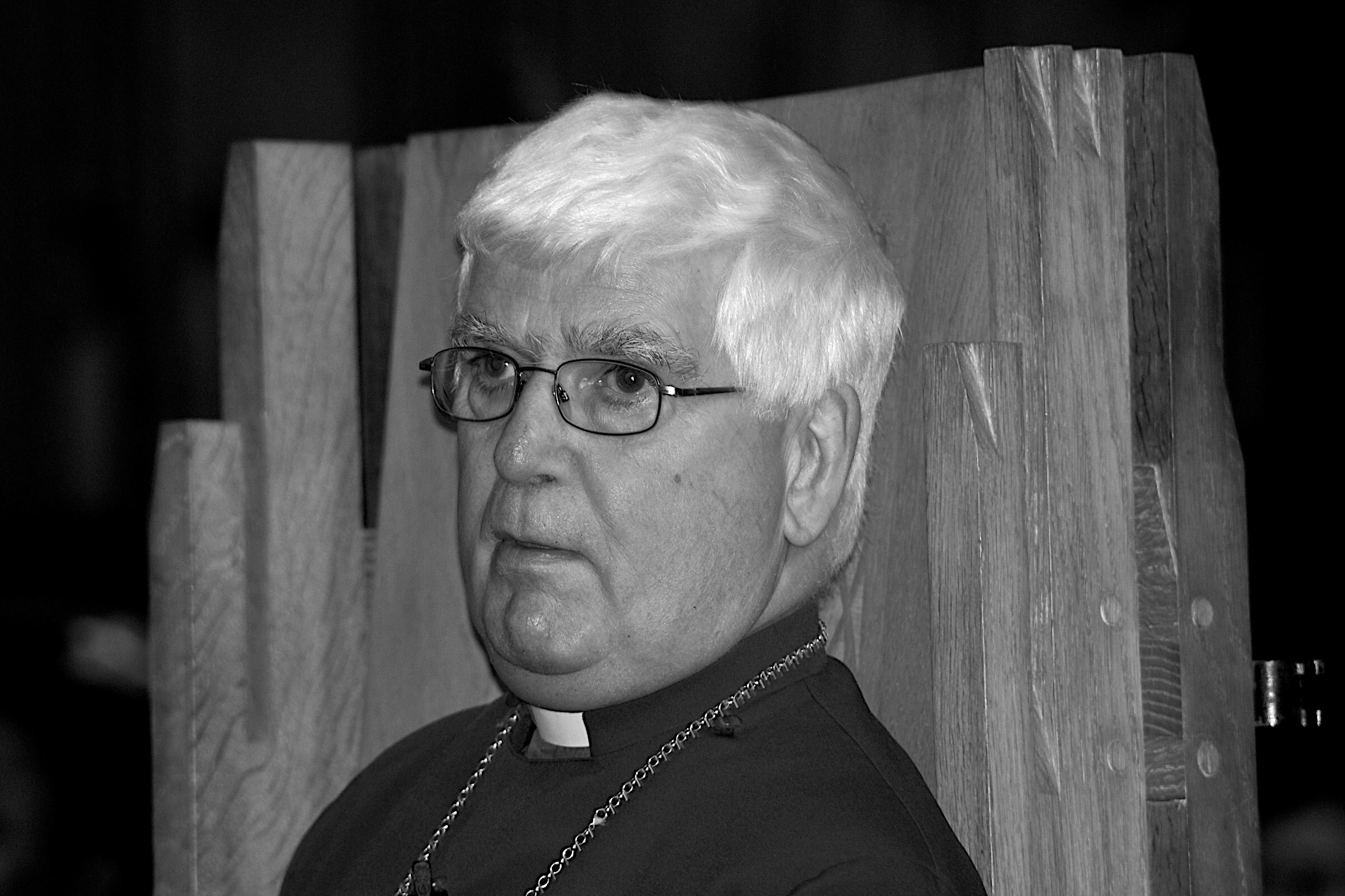 Thomas Frederick Butler, Bishop of Southwark